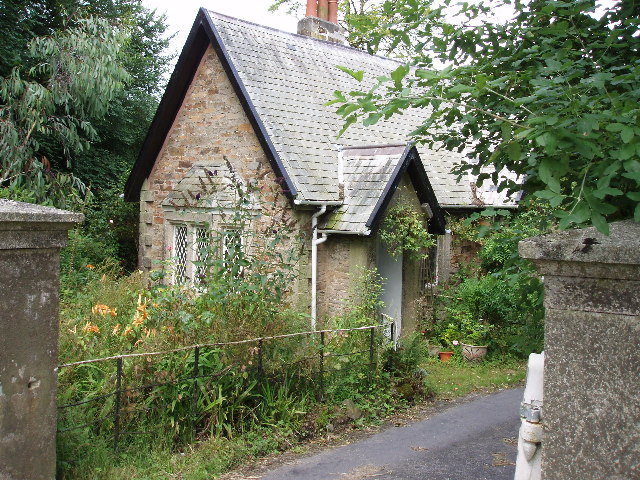 Lodge to Tregullow. Lodge at the entrance of the drive to Tregullow.